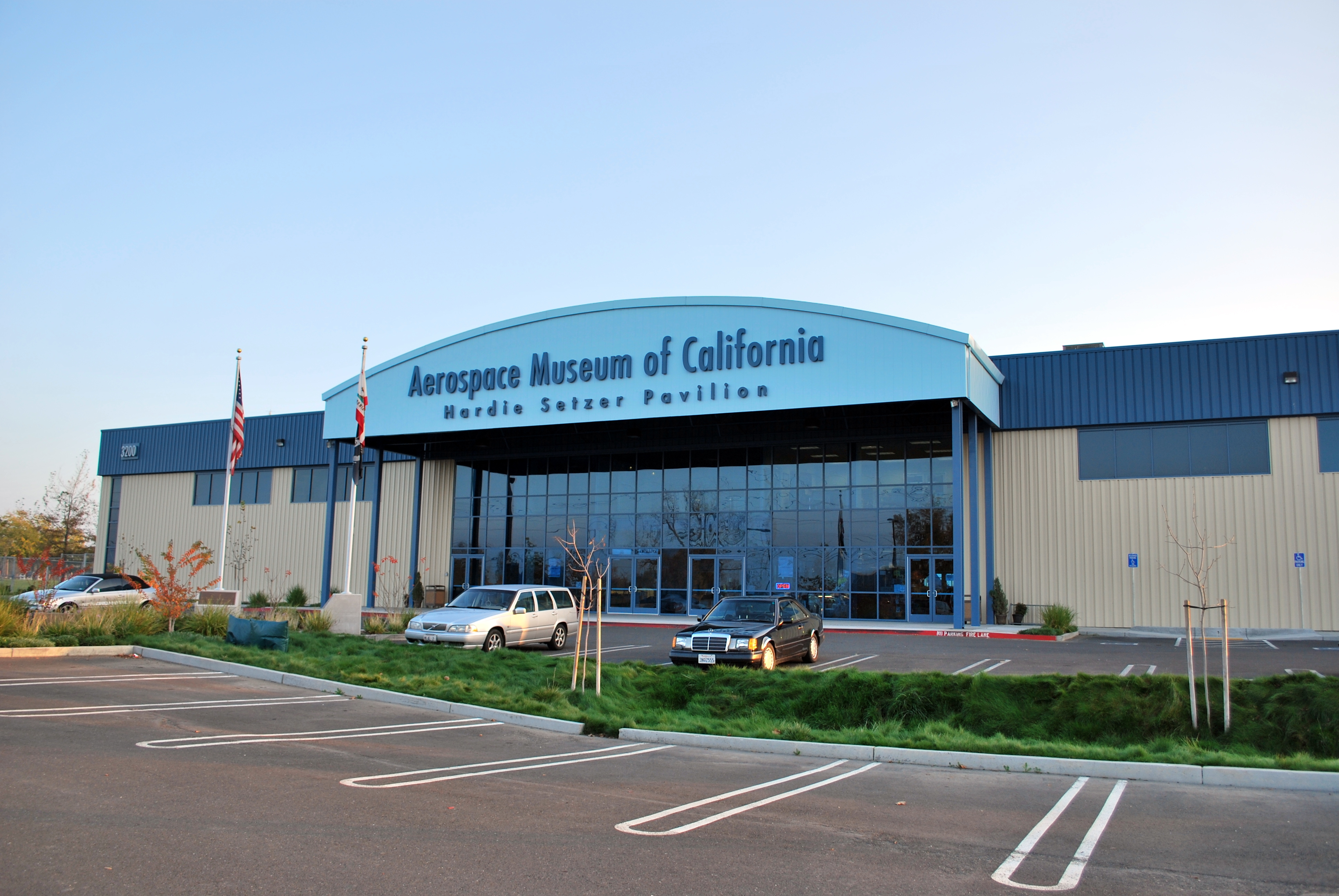 The Arospace Museum of California. "Hardi Setzer Pavilion"